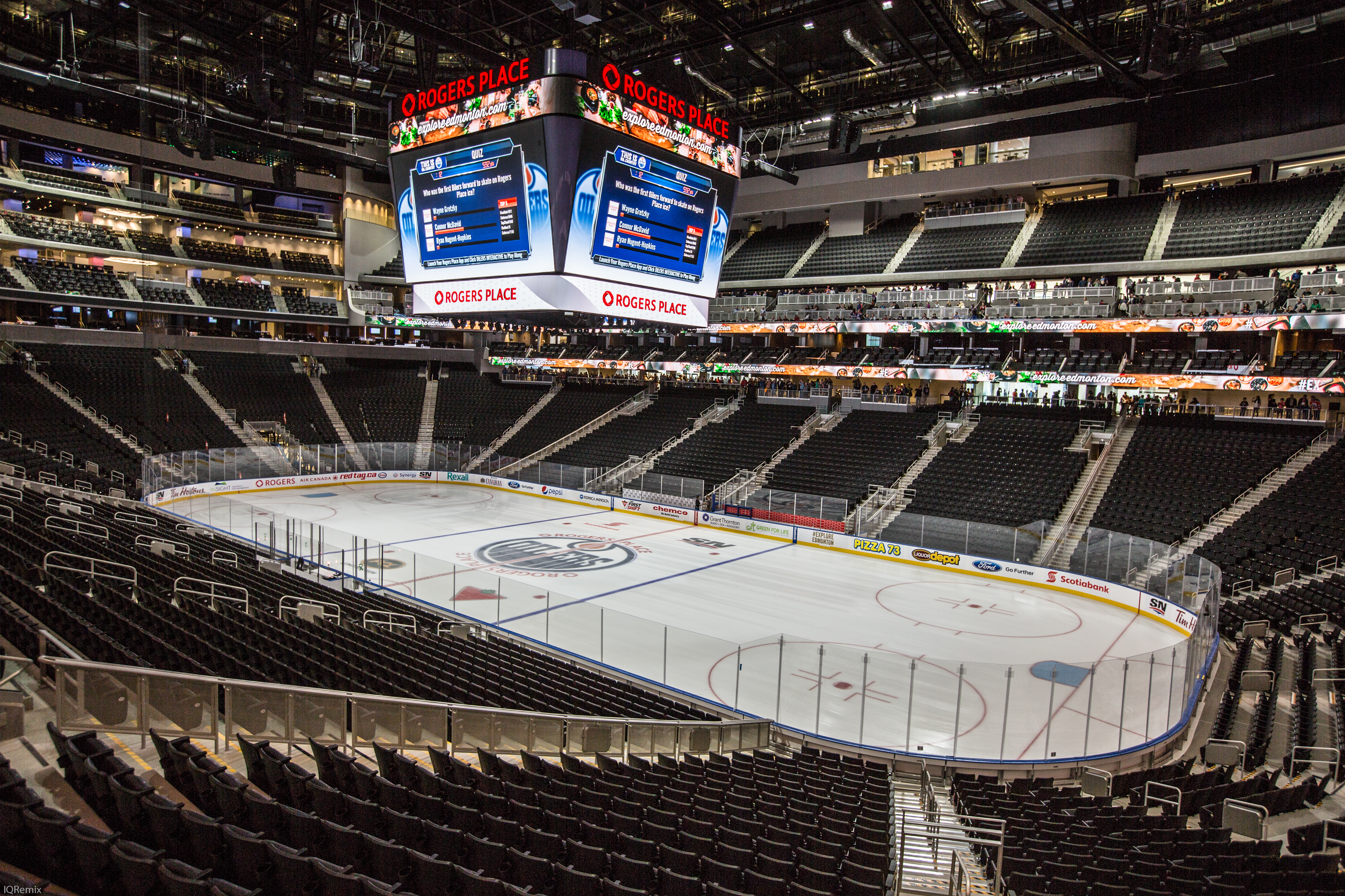 Overlooking the main concourse in Roger Place. September 10, 2016.